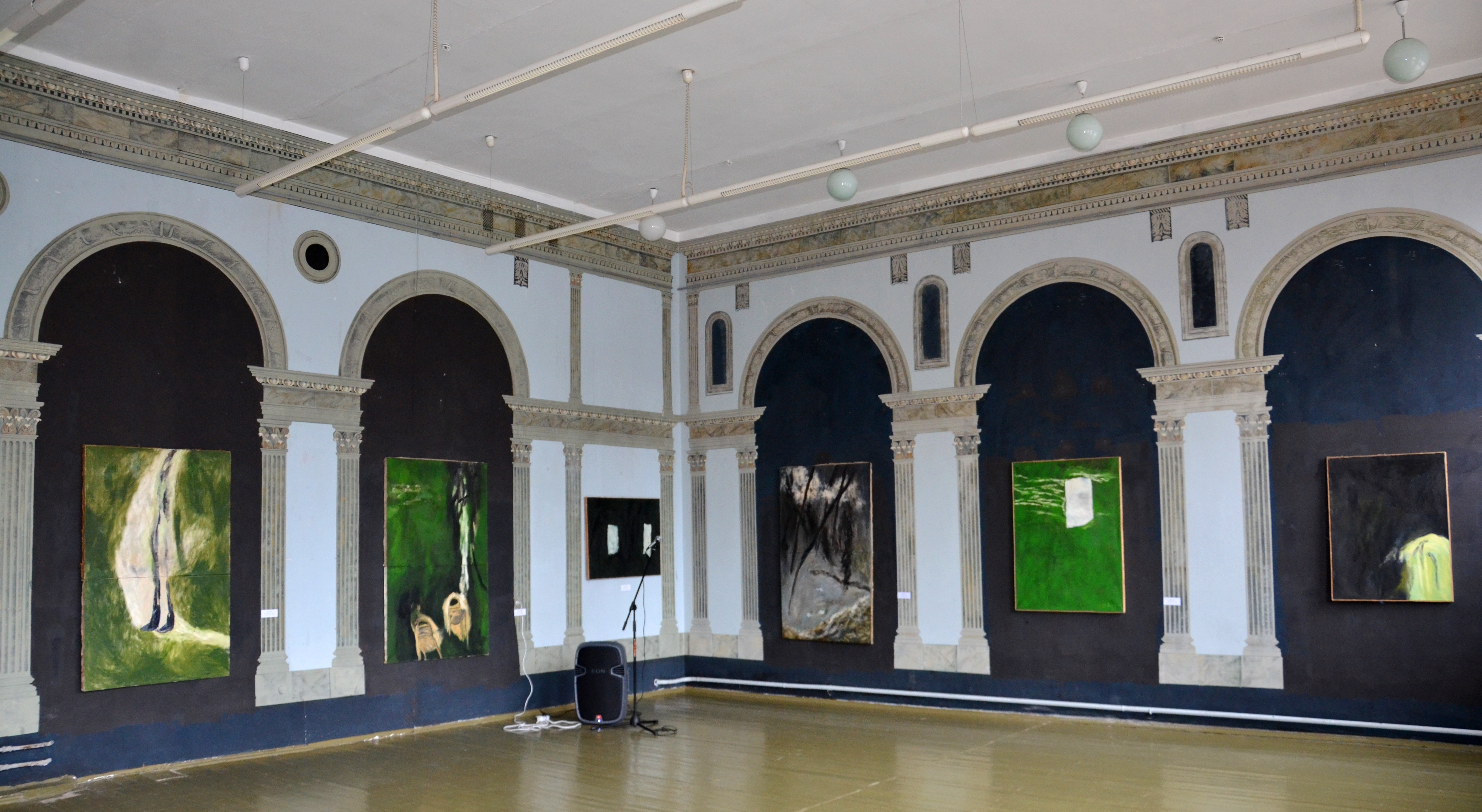 Personal exhibition of paintings and graphics Valery Pesin «Details». Minsk Contemporary Arts Center. 04.03.2015.